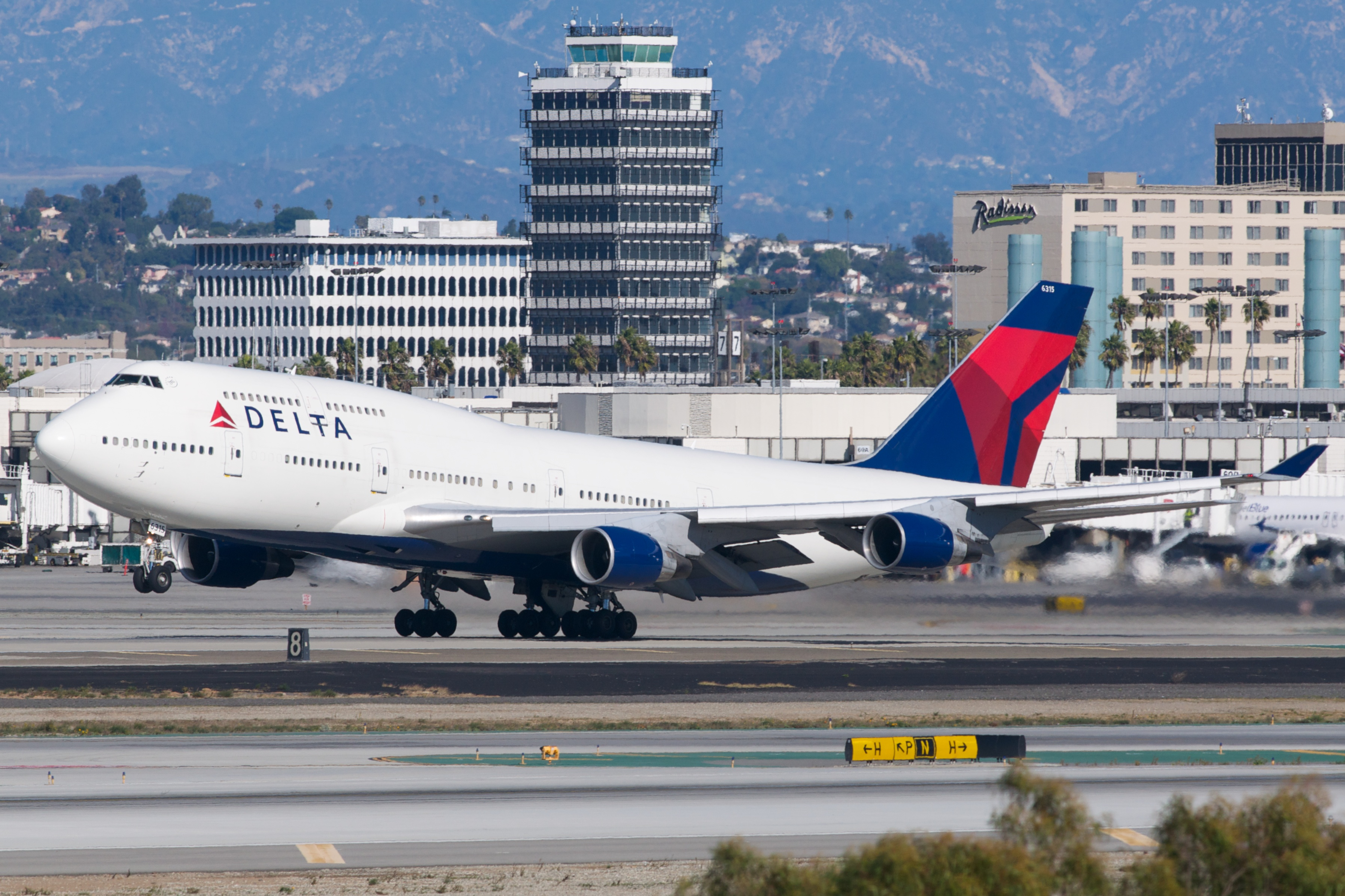 Rotating infront of the old tower, LAX.